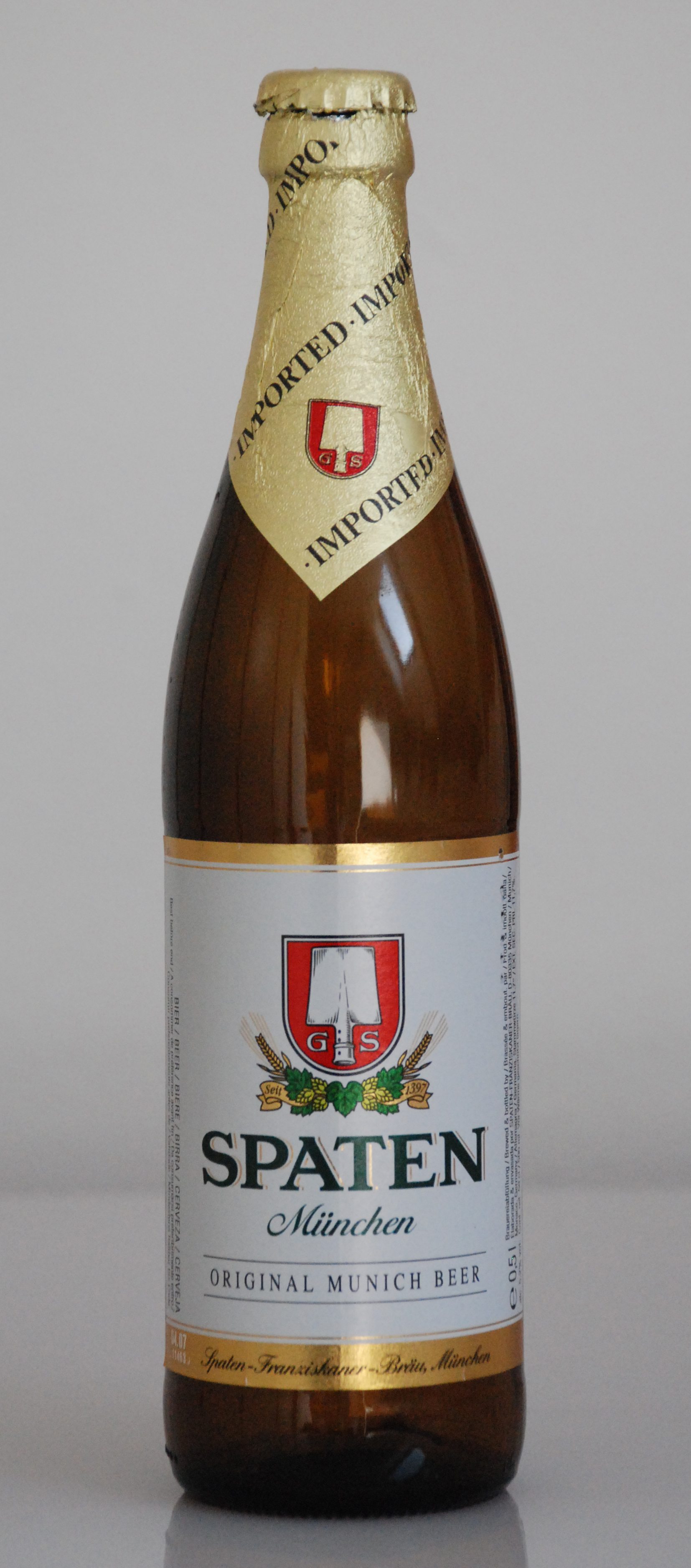 Empty bottle of Spaten beer.